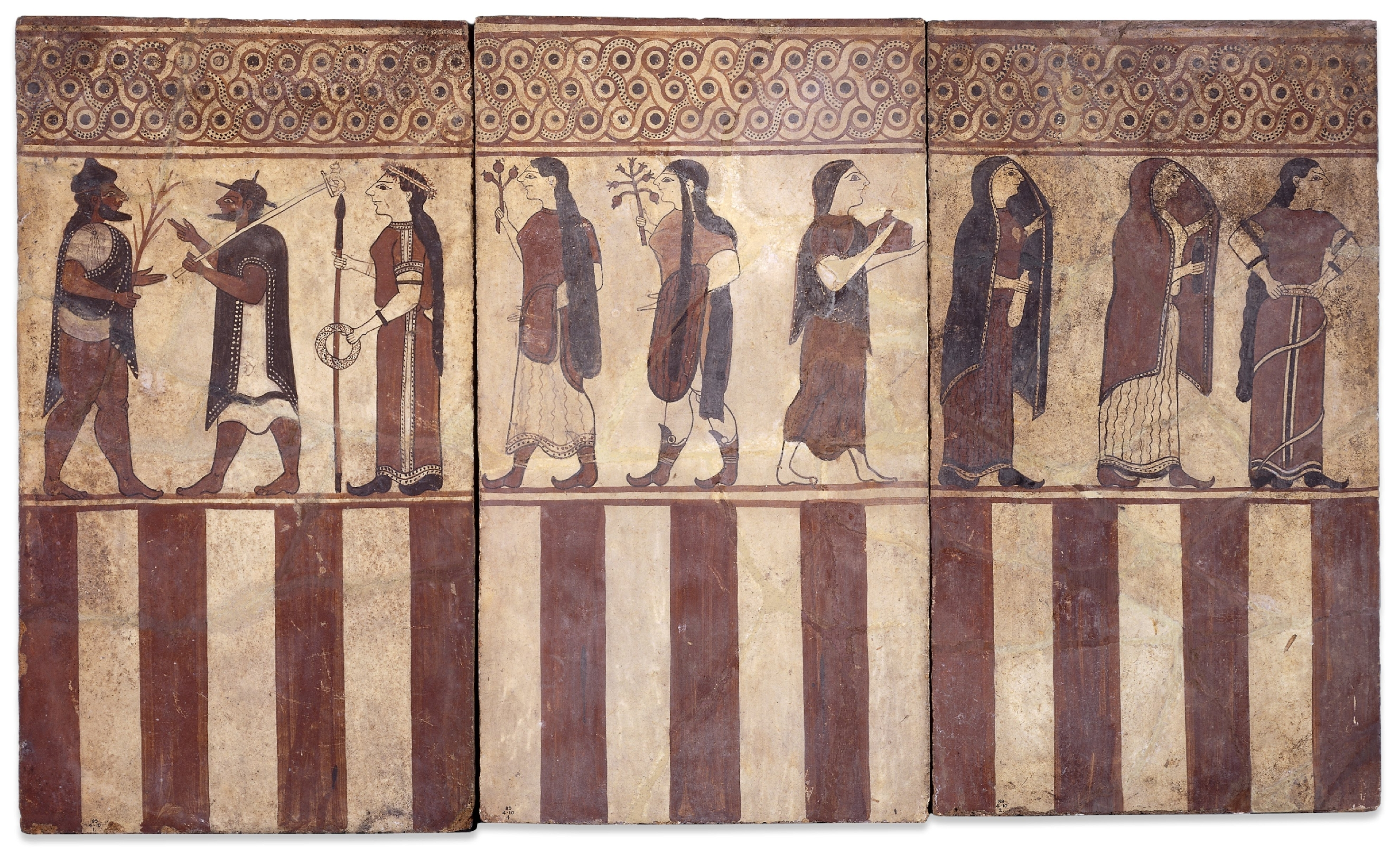 Etruscan Boccanera Plaques from Cerveteri in the British Museum London